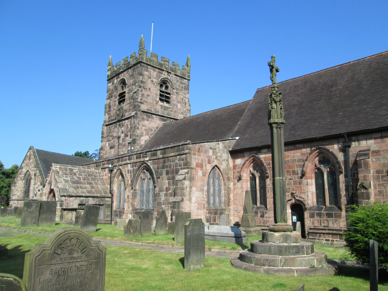 St Edward's Church, seen from the south-east.